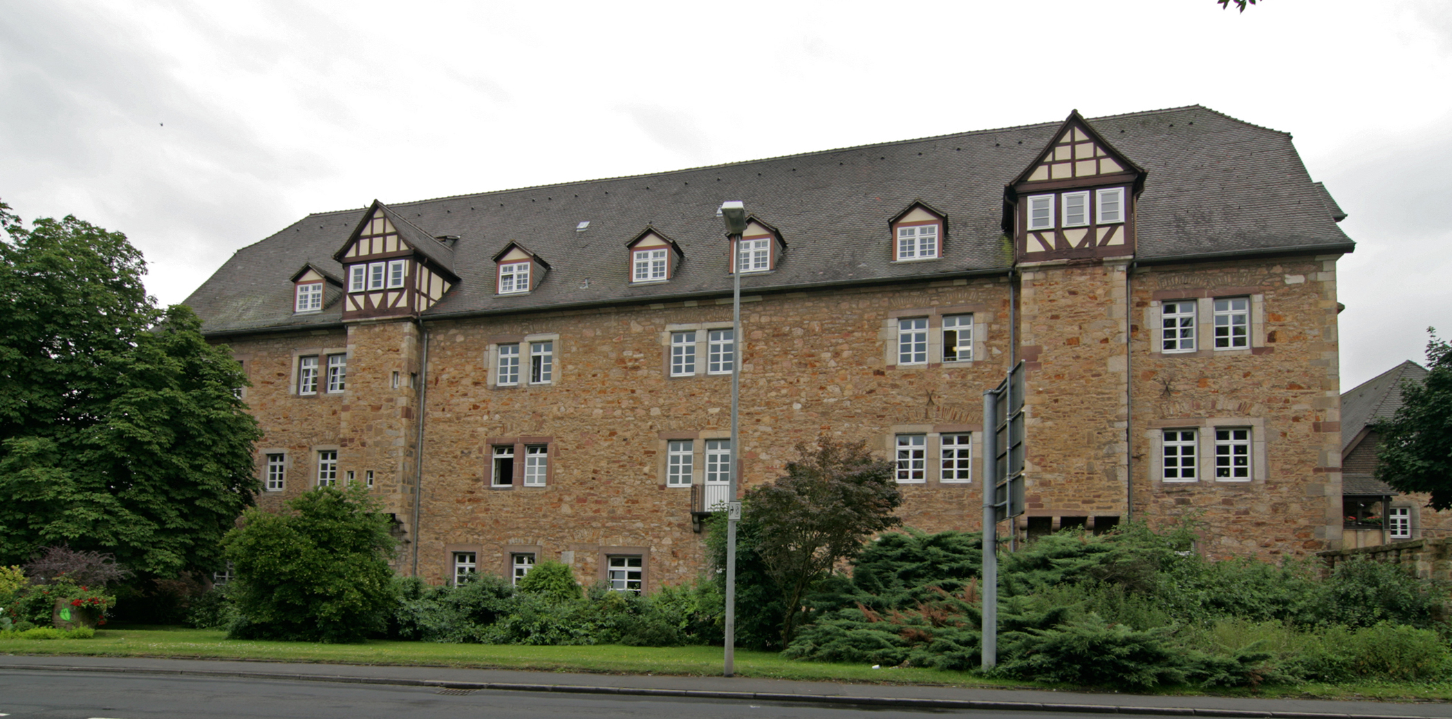 The Castle, Melsungen, Hesse. Built 1550-1557 by Margrave Philipp.